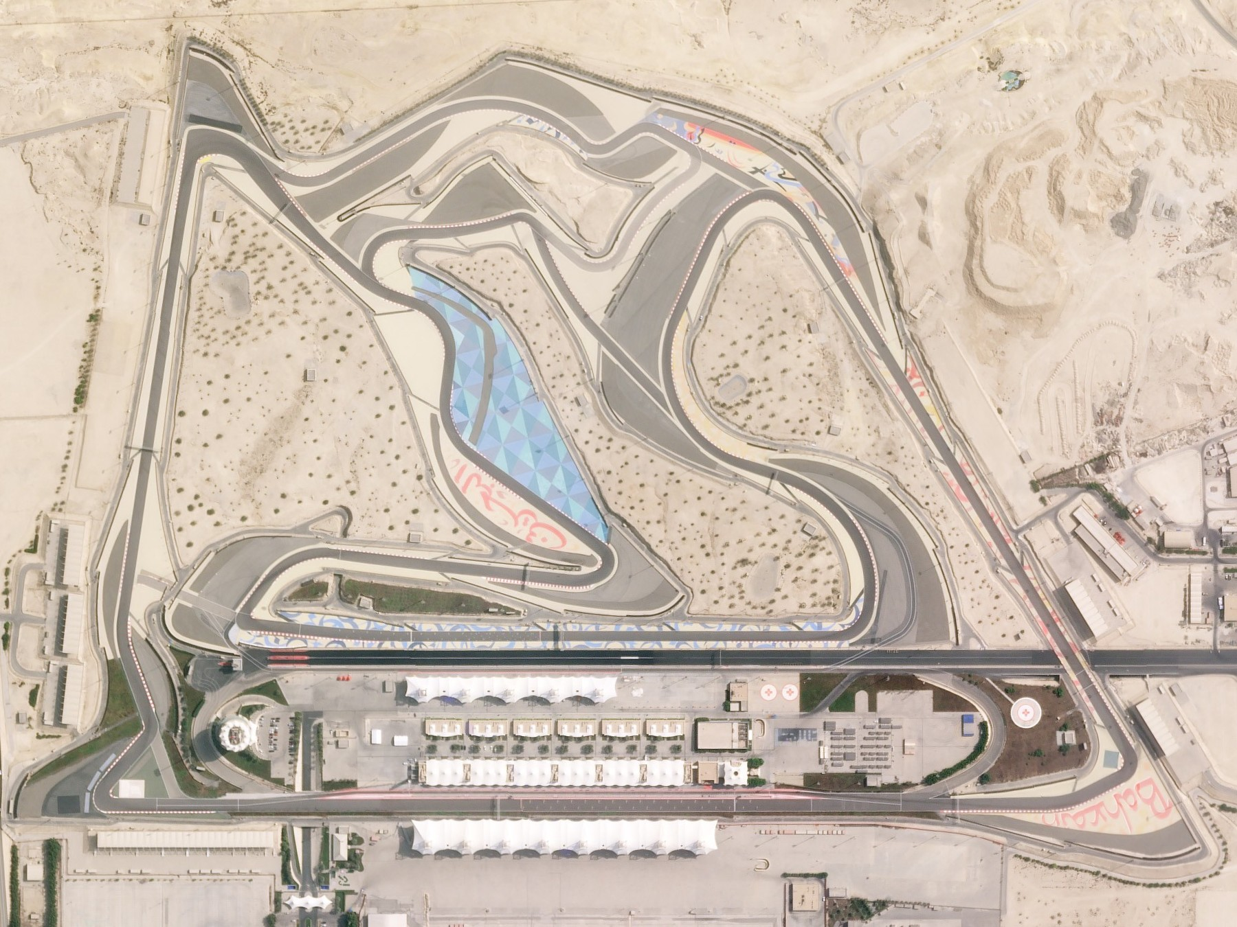 The Bahrain International Circuit, a motorsport venue in Sakhir, Bahrain. Image taken on November 2, 2017, by a Planet Labs SkySat satellite.